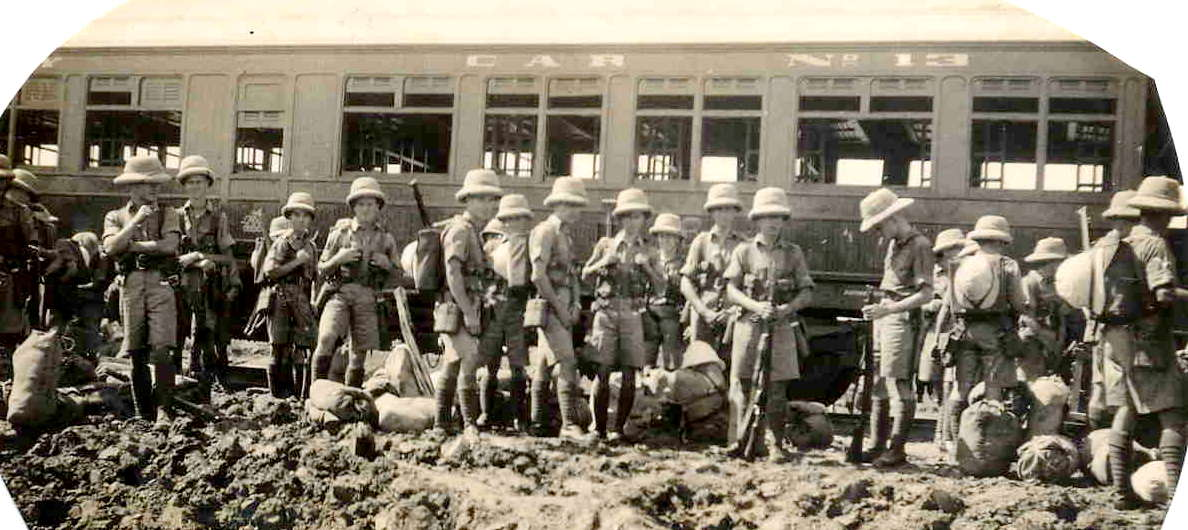 Original caption: October 1933 Dad and his pals stretching their legs during a brief halt on their way to Dacca.